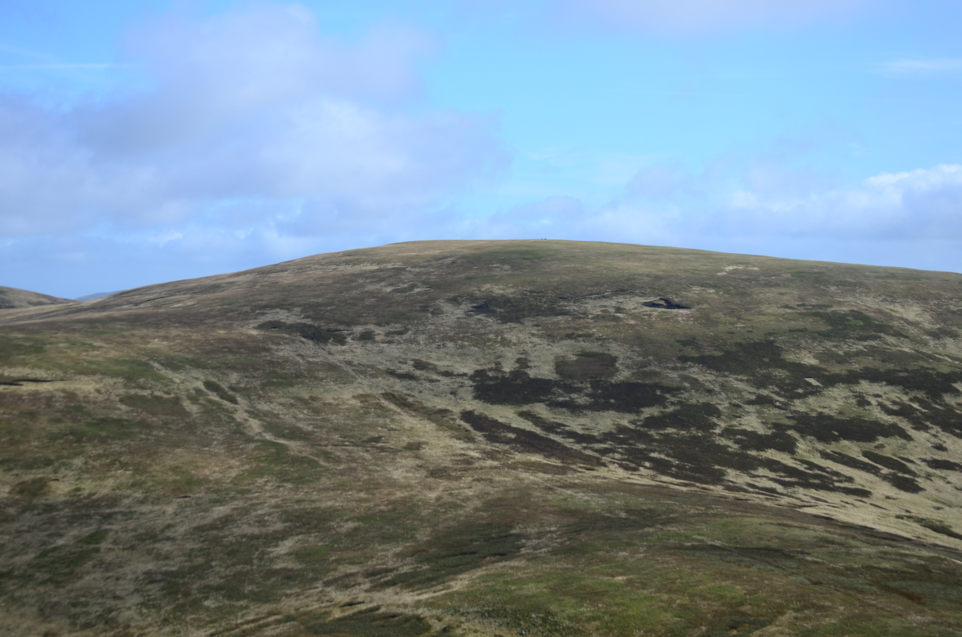 Cramalt Craig from the descent of Broad Law.